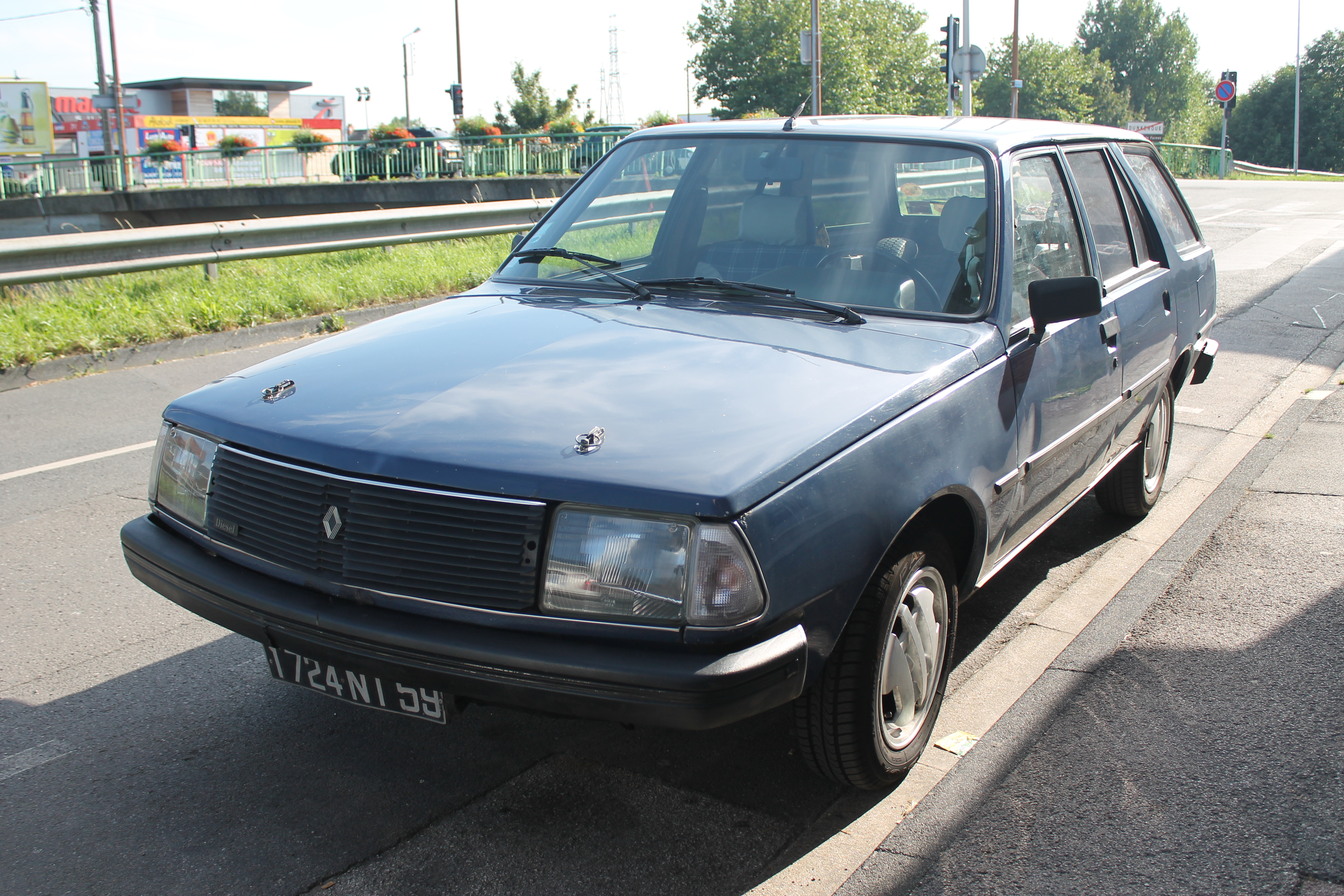 Pretty certain this is a TD, as wiki says the GTD was only available in saloon. It has a 2.1 litre diesel engine. It was good to see this very original looking Renault 18- I've never seen one in the UK. Don't think they're even very common in France, this was the only one I saw in my month there. It wears local 1984 plates, which could be original. Does anyone know what the clip things on the bonnet are for? I love the wheel trims on this one, although I don't think they were standard on this spec R18.